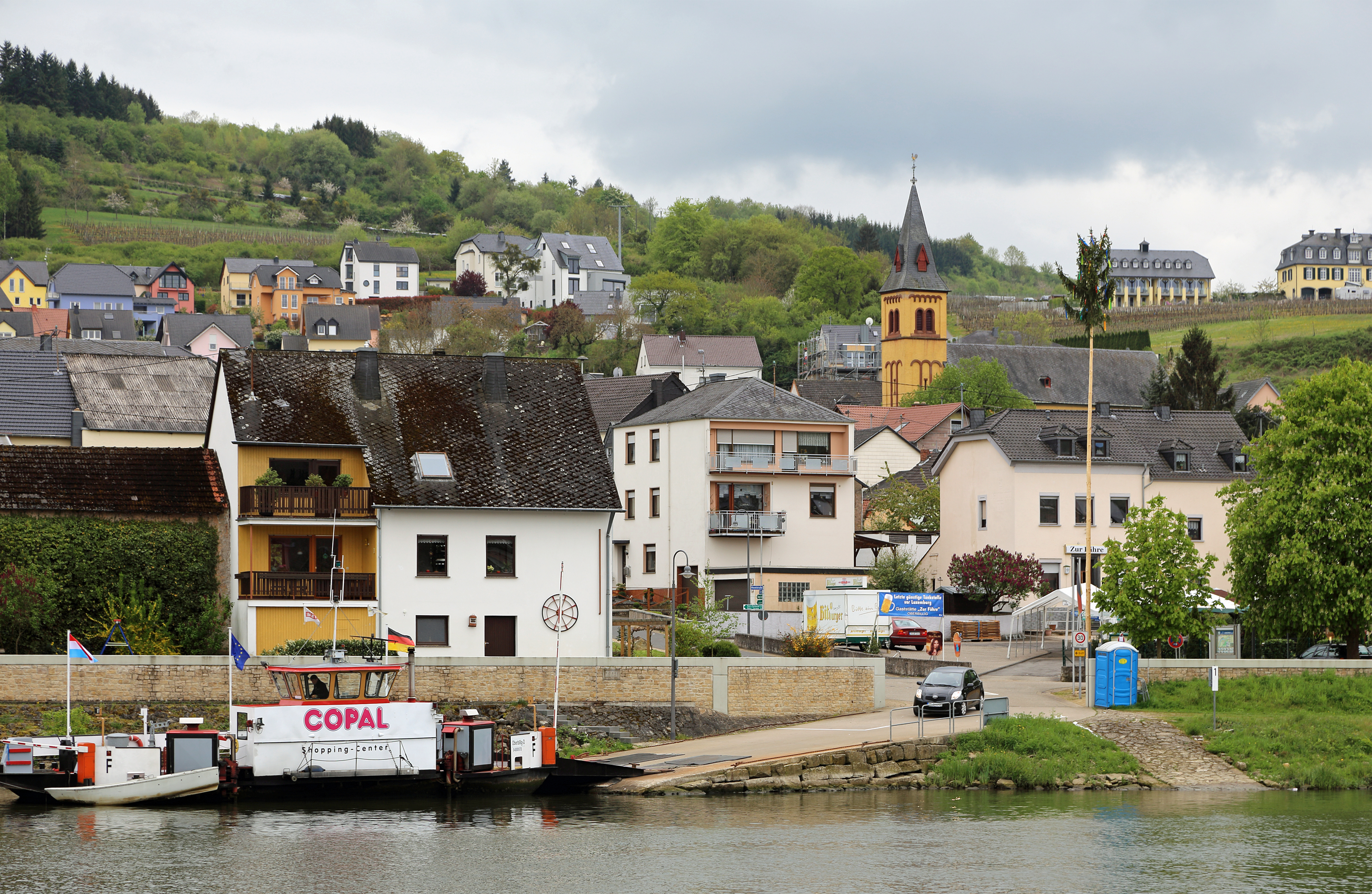 Bank of the Moselle river in Oberbillig (Germany). Left: the ferry to Wasserbillig (Grand Duchy of Luxembourg).